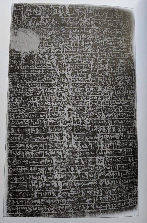 Padaviya Virasasana